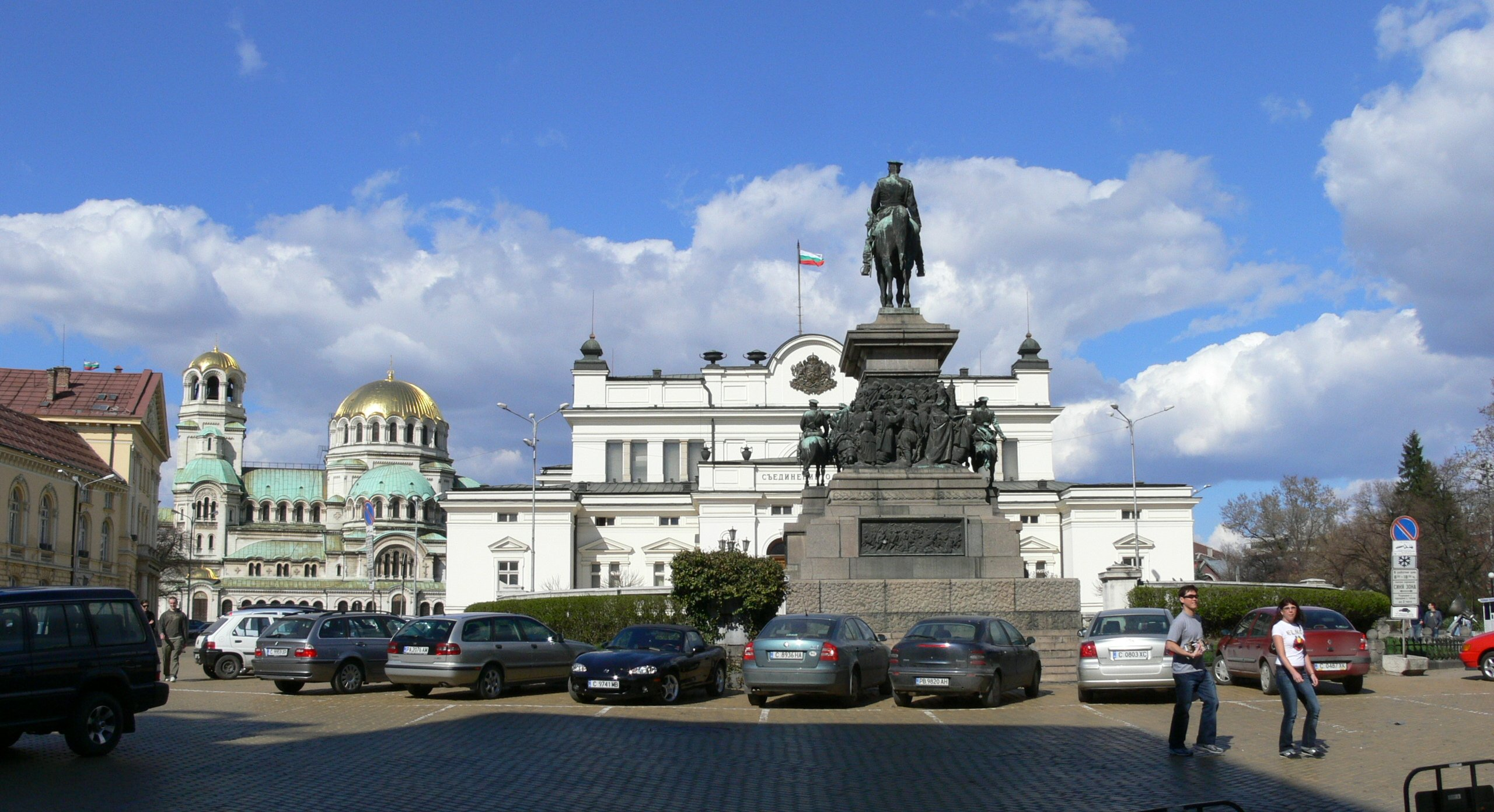 Parliament Square, Sofia, Bulgaria.